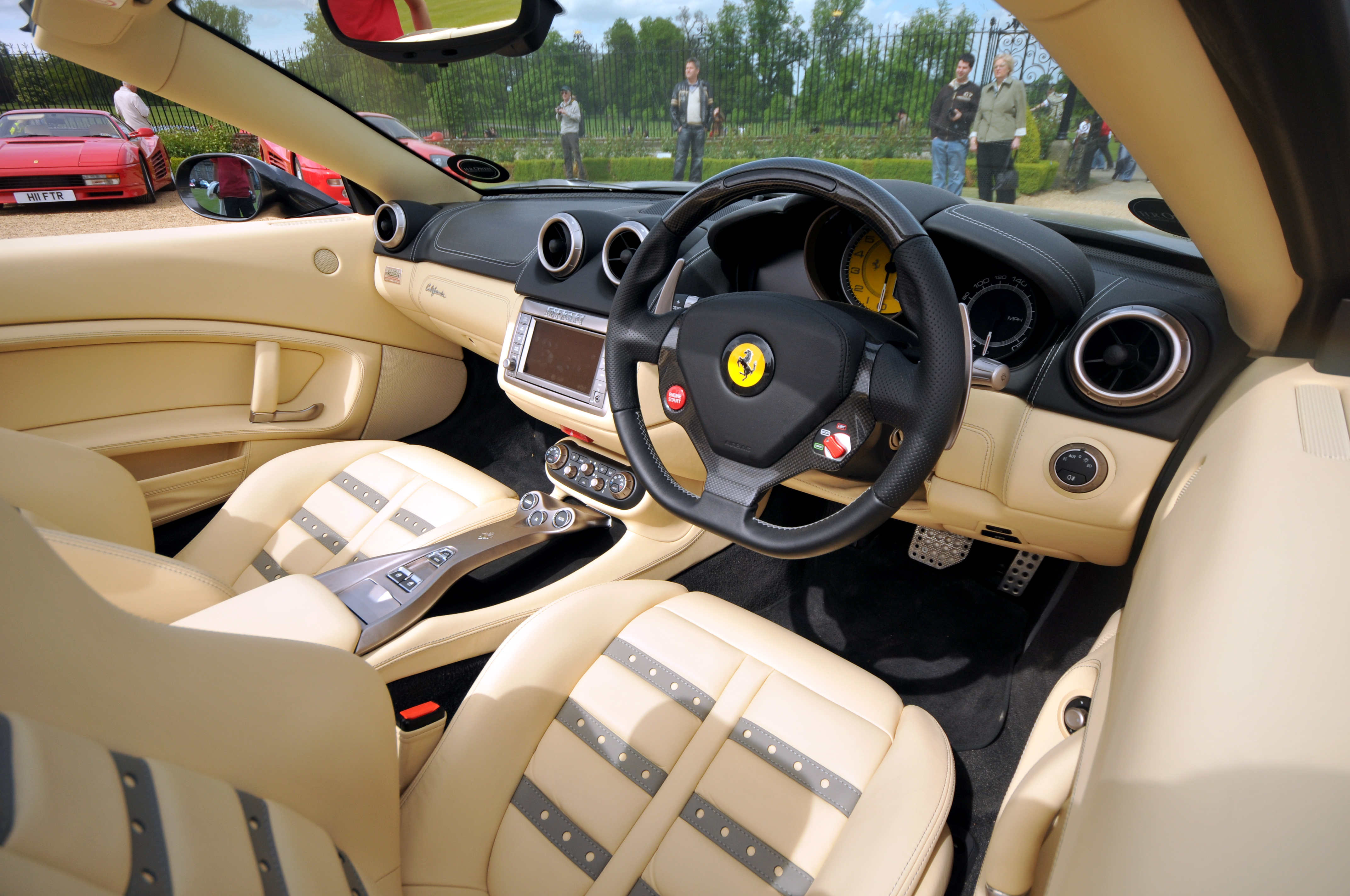 Picture of the interior of a Ferrari California.